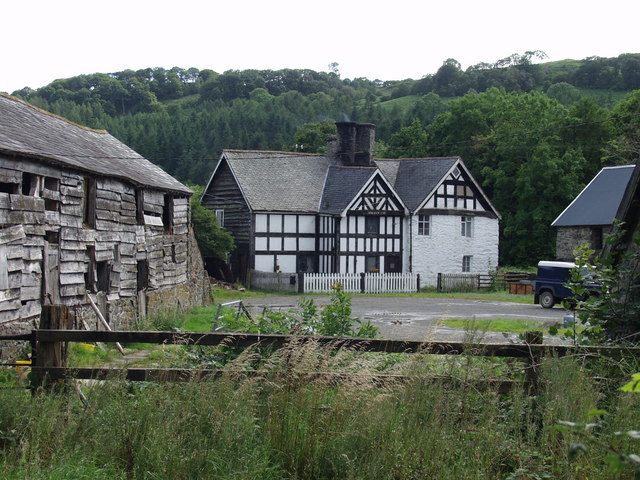 Stone and timbered house at Plas Dolanog Great timbered house on this riverside livestock farm which was built by the Watkin Williams Wynne family in 1664.